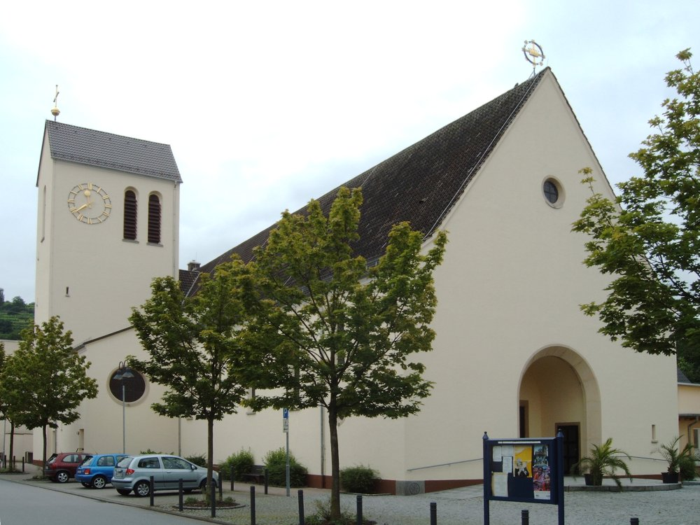 Church in Laudenbach